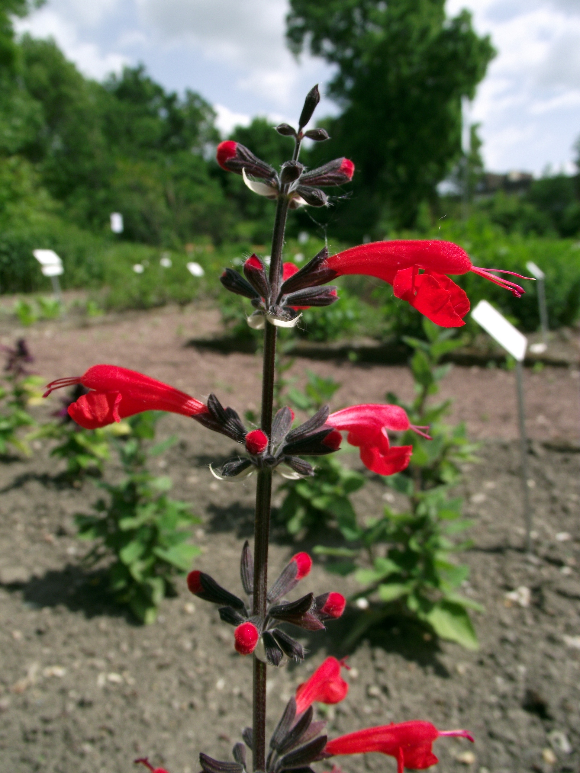 Salvia coccinea (WP) (Texas sage, scarlet sage, tropical sage, blood sage) is a herbaceous perennial in the Lamiaceae family that is widespread throughout the Southeastern United States, Mexico, Central America, the Caribbean, and northern Southern America (Colombia, Peru, and Brazil).